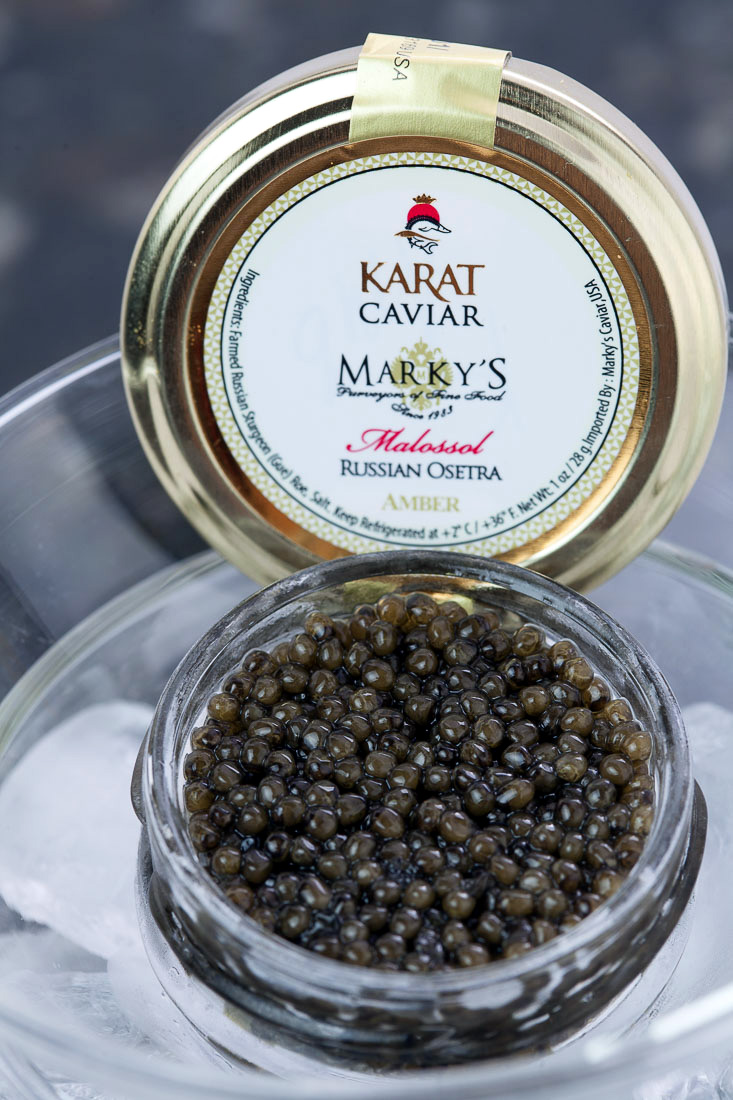 Marky's Caviar exclusively distributes the sturgeon caviar produced by the leading Israel Aquafarm Karat Caviar.